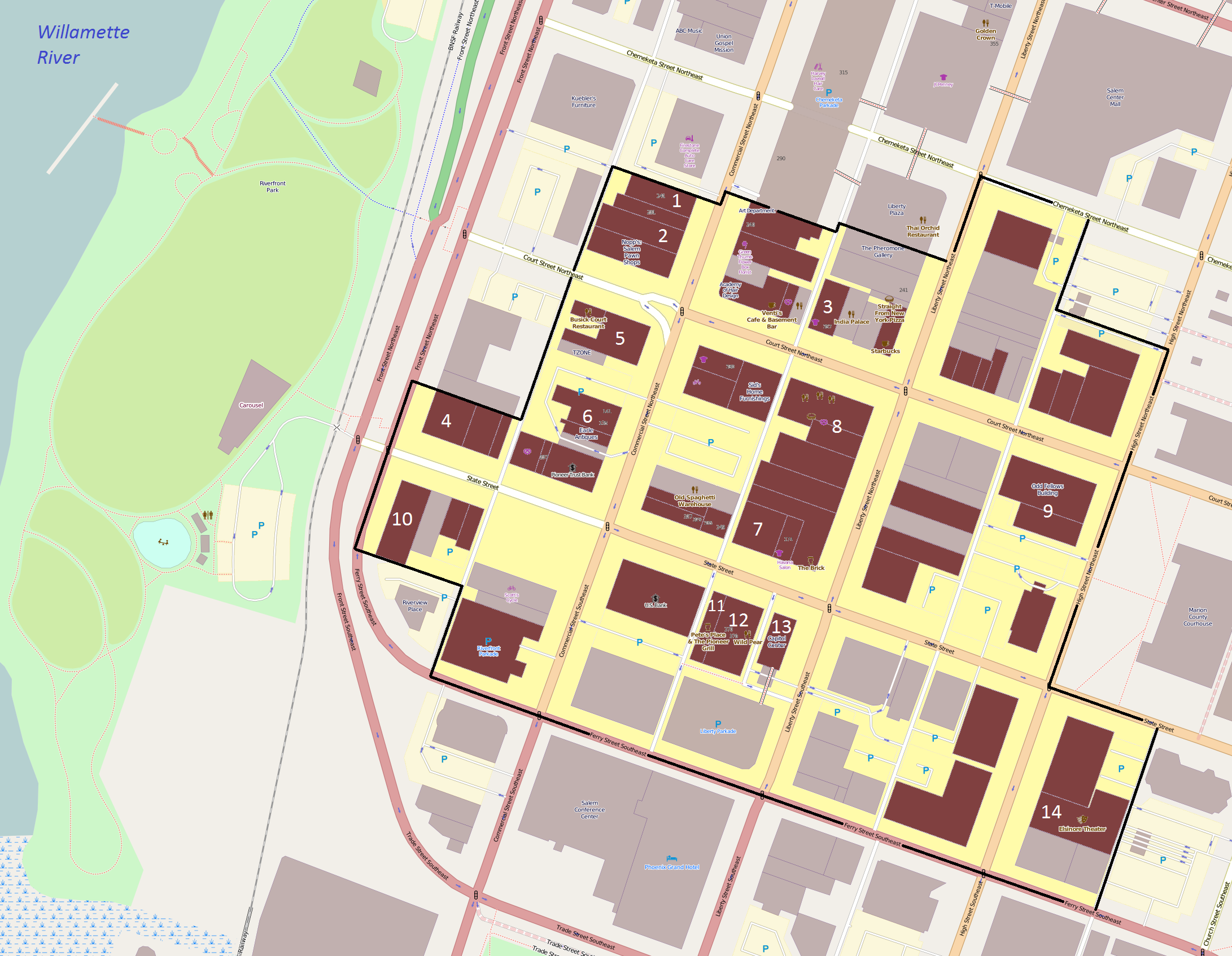 Map showing the boundaries of the Salem Downtown State Street – Commercial Street Historic District in Salem, Oregon, United States. The historic district is listed on the US National Register of Historic Places. Boundary data is derived from the historic district's National Register nomination form. Black boundary/yellow area: Salem Downtown State Street – Commercial Street Historic District boundaries. Maroon shading: Buildings listed as contributing resources in the historic district. White numbers: Represent the locations of contributing resources in the historic district that are also listed individually on the National Register: South First National Bank Block Starkey–McCully Block Christopher Paulus Building R. P. Boise Building Bush and Brey Block and Annex Bush–Breyman Block Farrar Building Reed Opera House and McCornack Block Addition Chemeketa Lodge No. 1 Odd Fellows Buildings S. A. Manning Building J. K. Gill Building Adolph Block Old First National Bank Building Elsinore Theater